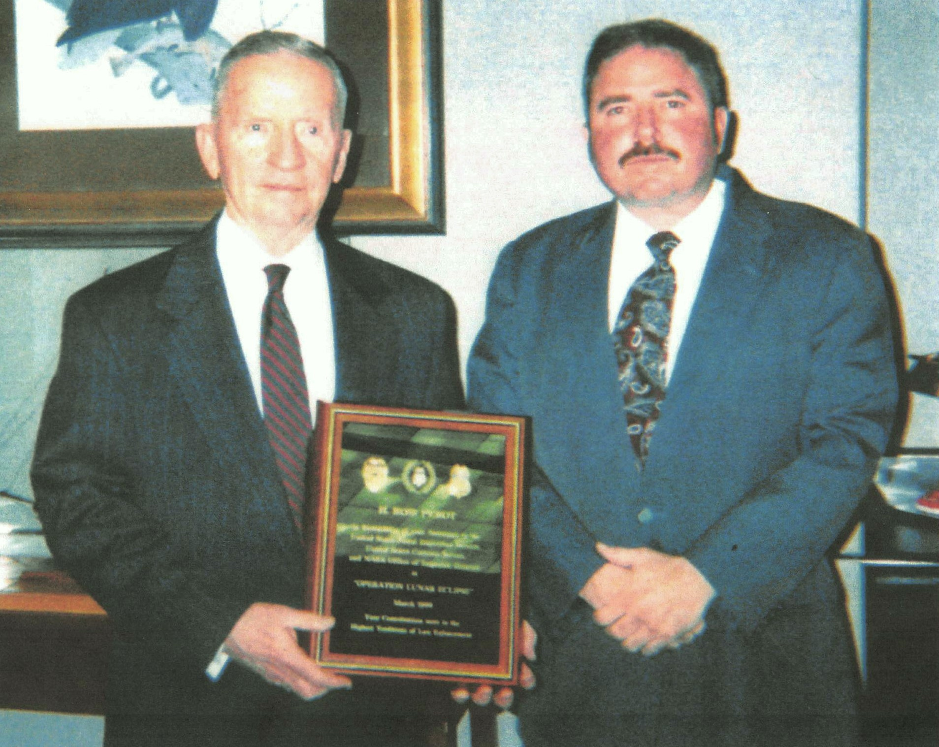 NASA government photograph of Joseph Gutheinz and Ross Perot